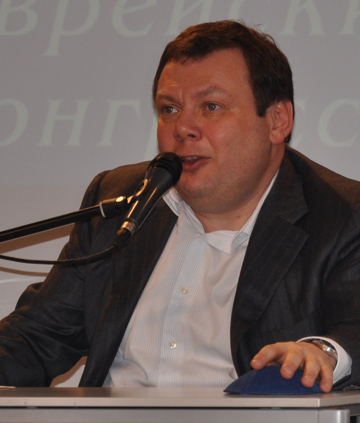 Mikhail Fridman, Russian businessman